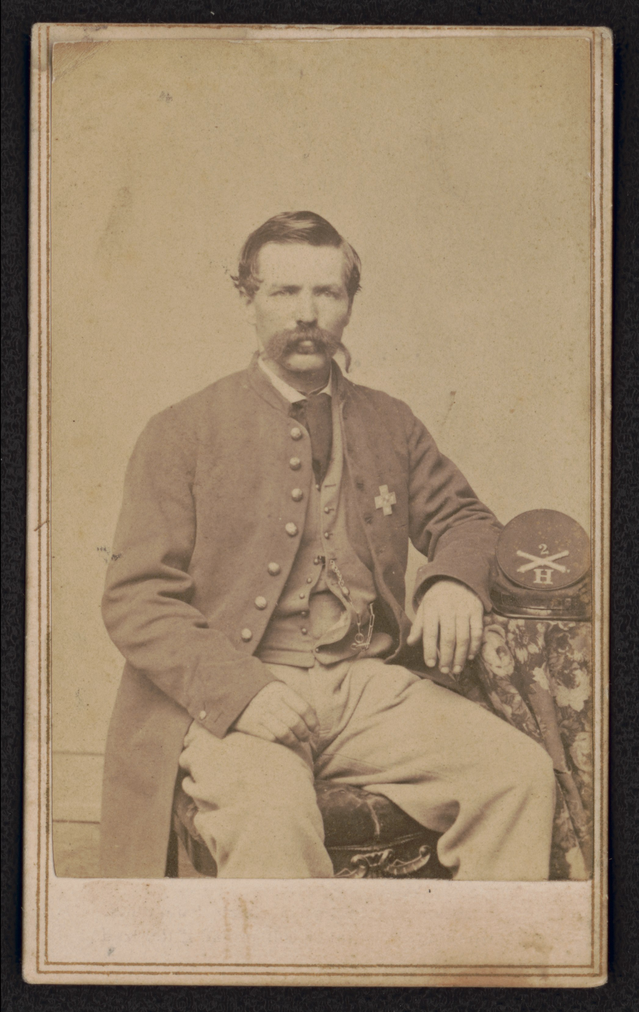 Title: George W. Loveland of Co. H, 2nd New York Heavy Artillery Regiment, in uniform] / Whitehurst, Gallery, 434 Pennsylvania Avenue, Washington, D.C. ; M.J. Powers, photographer Abstract/medium: 1 photograph : albumen print on card mount ; mount 10 x 6 cm (carte de visite format)